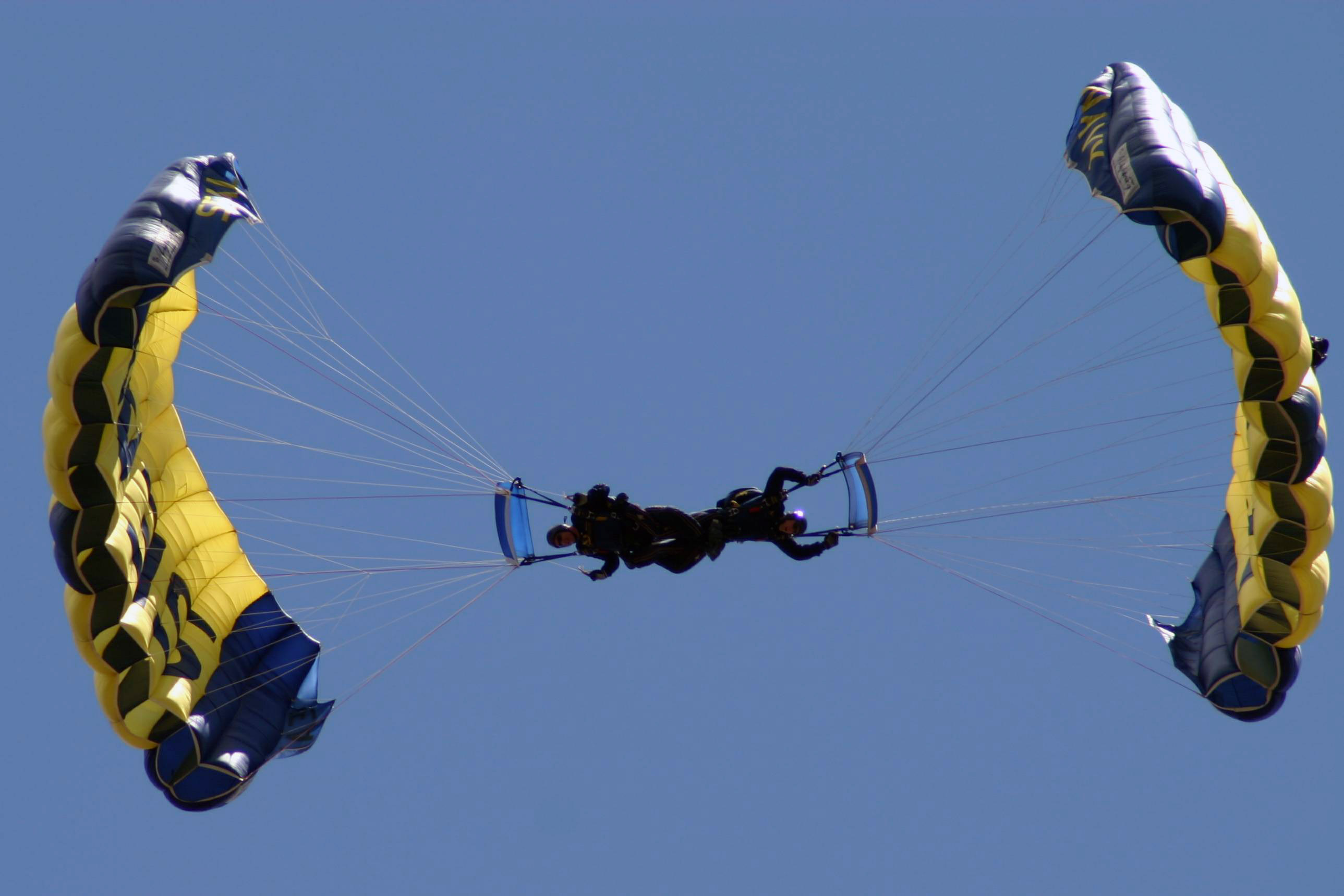 BOSTON (July 1, 2007) - Two members of the Navy Parachute Team “Leap Frogs" perform their trademark “downplane” maneuver while performing for the first time in history at Boston’s Fenway Park. The performance prior to a Boston Red Sox game was just one of many events planned during Boston Navy Week. The week is one of 26 Navy Weeks planned across America in 2007. Navy Weeks are designed to show Americans the investment they have made in their Navy and increase awareness in cities that do not have a significant Navy presence. U.S. Navy photo by Chief Mass Communication Specialist Dave Kaylor (RELEASED)